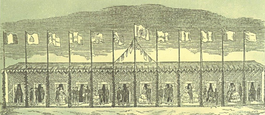 Pavilion installed in the Carregado train station for the inauguration of the Lisbon-Carregado rail line, in 28 de Outubro de 1856.